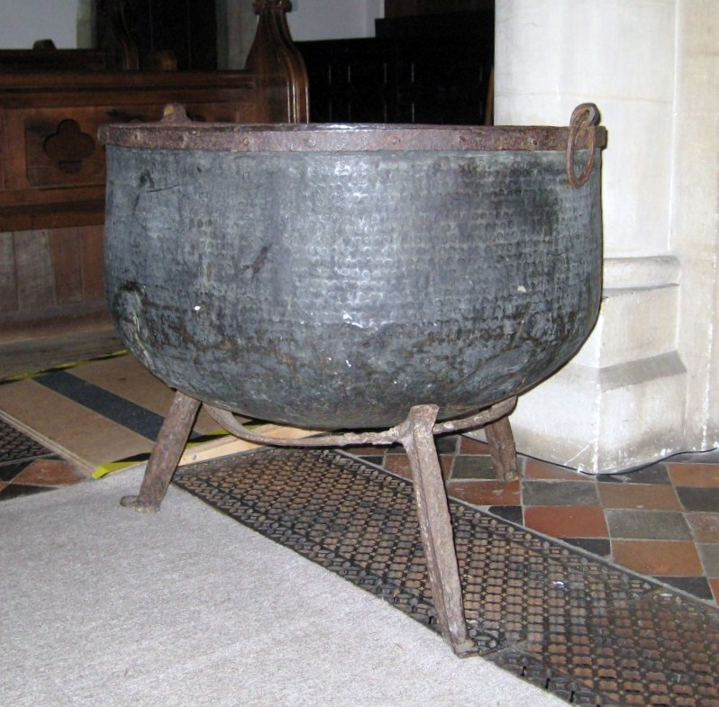 Iron cauldron known as "Mother Ludlam's Cauldron", in St Mary's Church, Frensham, Surrey. According top folklore it was the cauldron belonging to the white witch Mother Ludlum who lived at Mother Ludlam's Cave in Moor Park, Farnham.